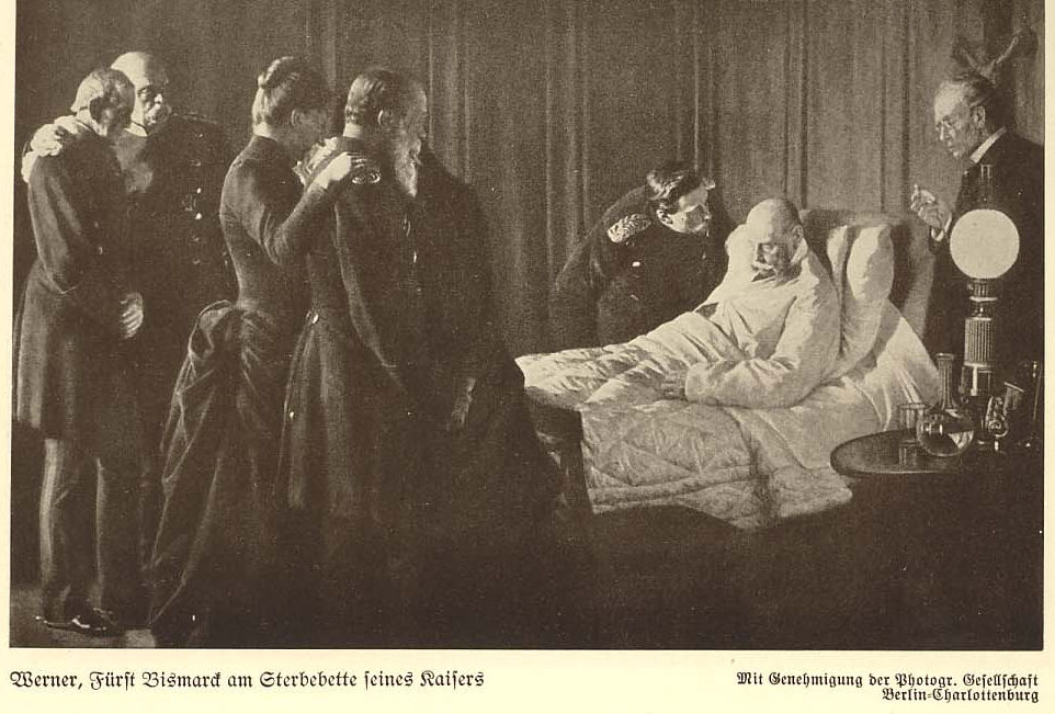 from left to right: Field Marshal Moltke, Otto von Bismarck, Princess Victoria of Sweden, her father HRH Grand Duke Frederick I of Baden with Grand Duchess Louise of Baden (Princess of Prussia), Prince William of Prussia at the death bed of the German emperor Wilhelm I. (with his last signature) in the year 1888